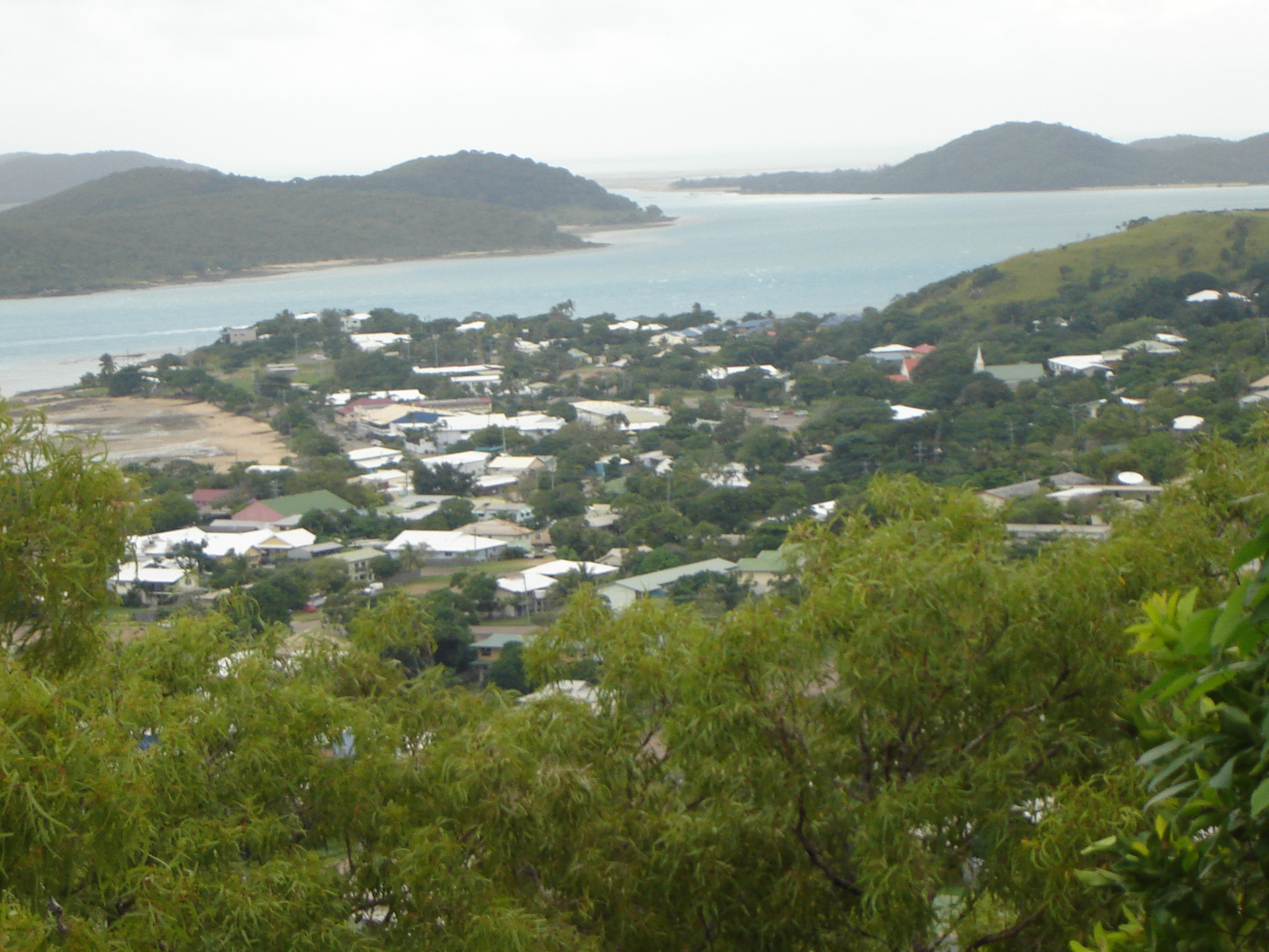 View of the Township of Thursday Island. Photo taken of Ben Lewes W.